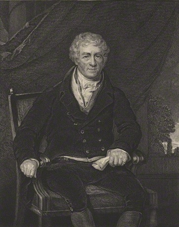 Portrait of Sir Robert Peel, 1st Baronet